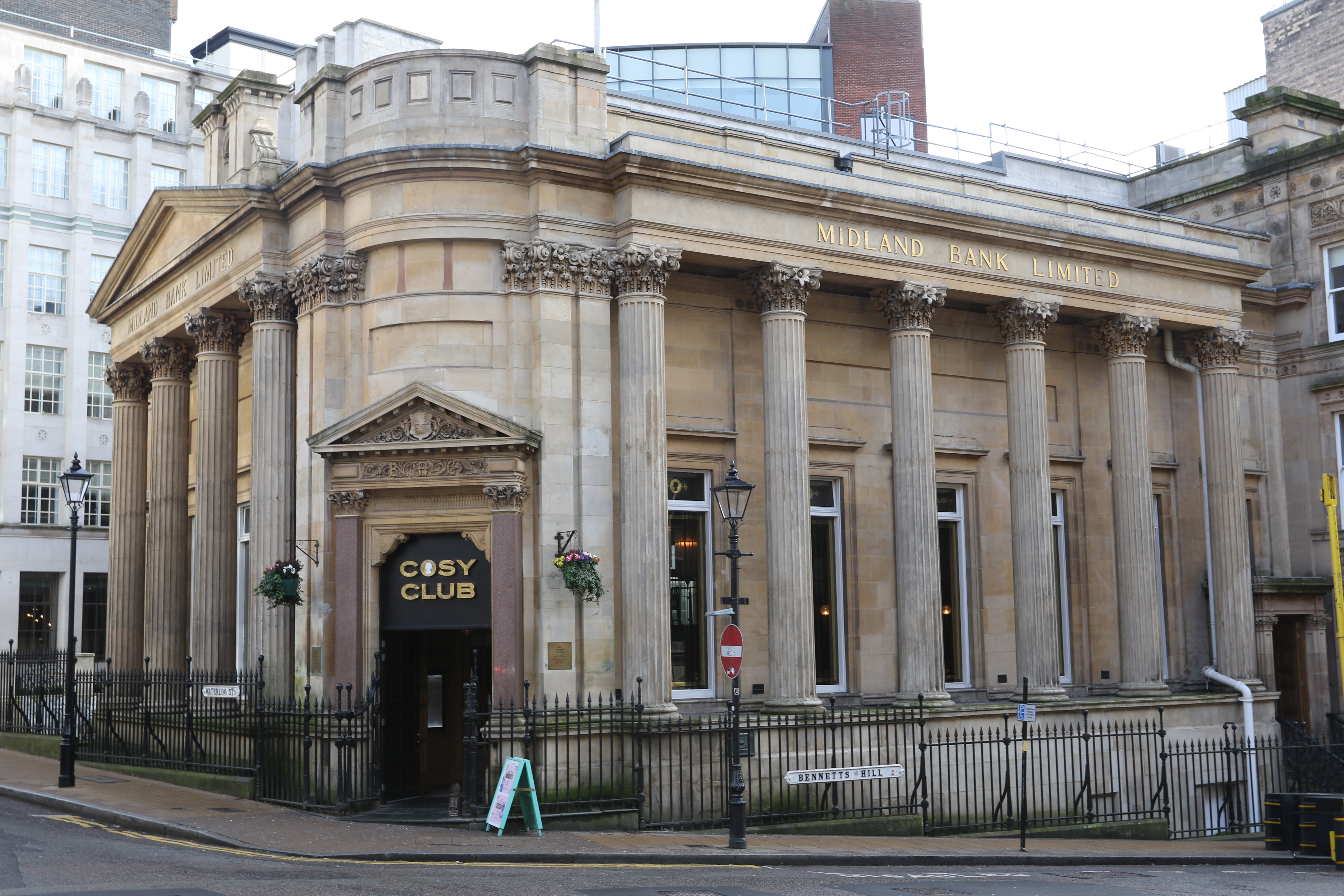 Formerly the Birmingham Banking Company